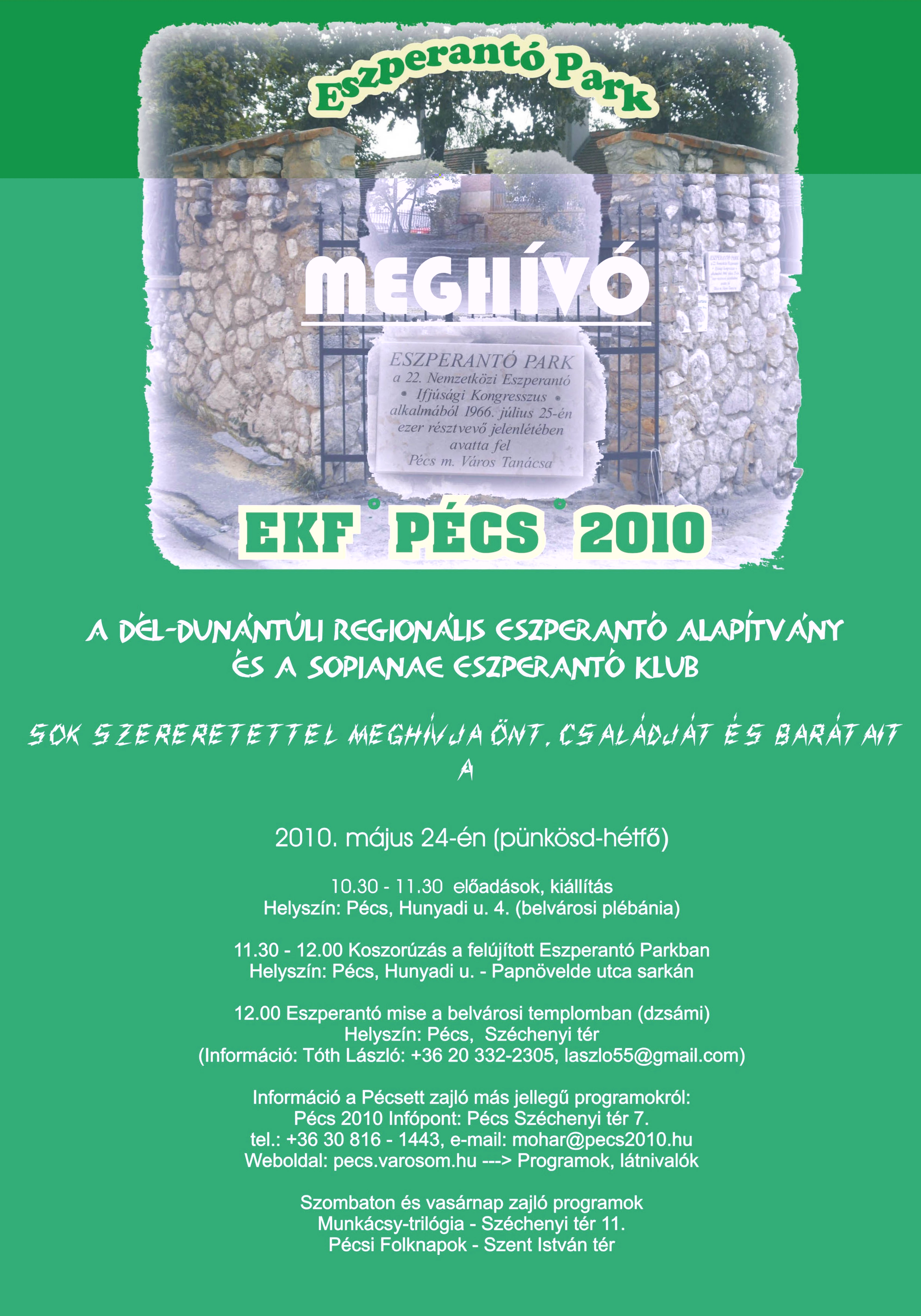 Invitation to the inauguration of Wall Esperanto, Pécs, Hungary